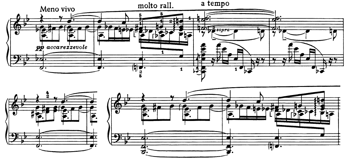 Bars 120-123 of Scriabin's 5th sonata